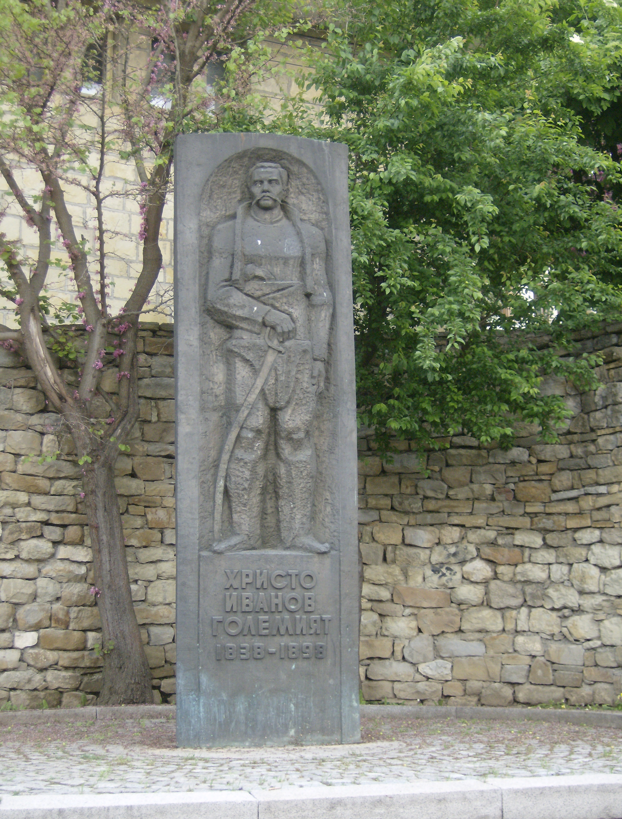 Hristo Ivanov Golemiat